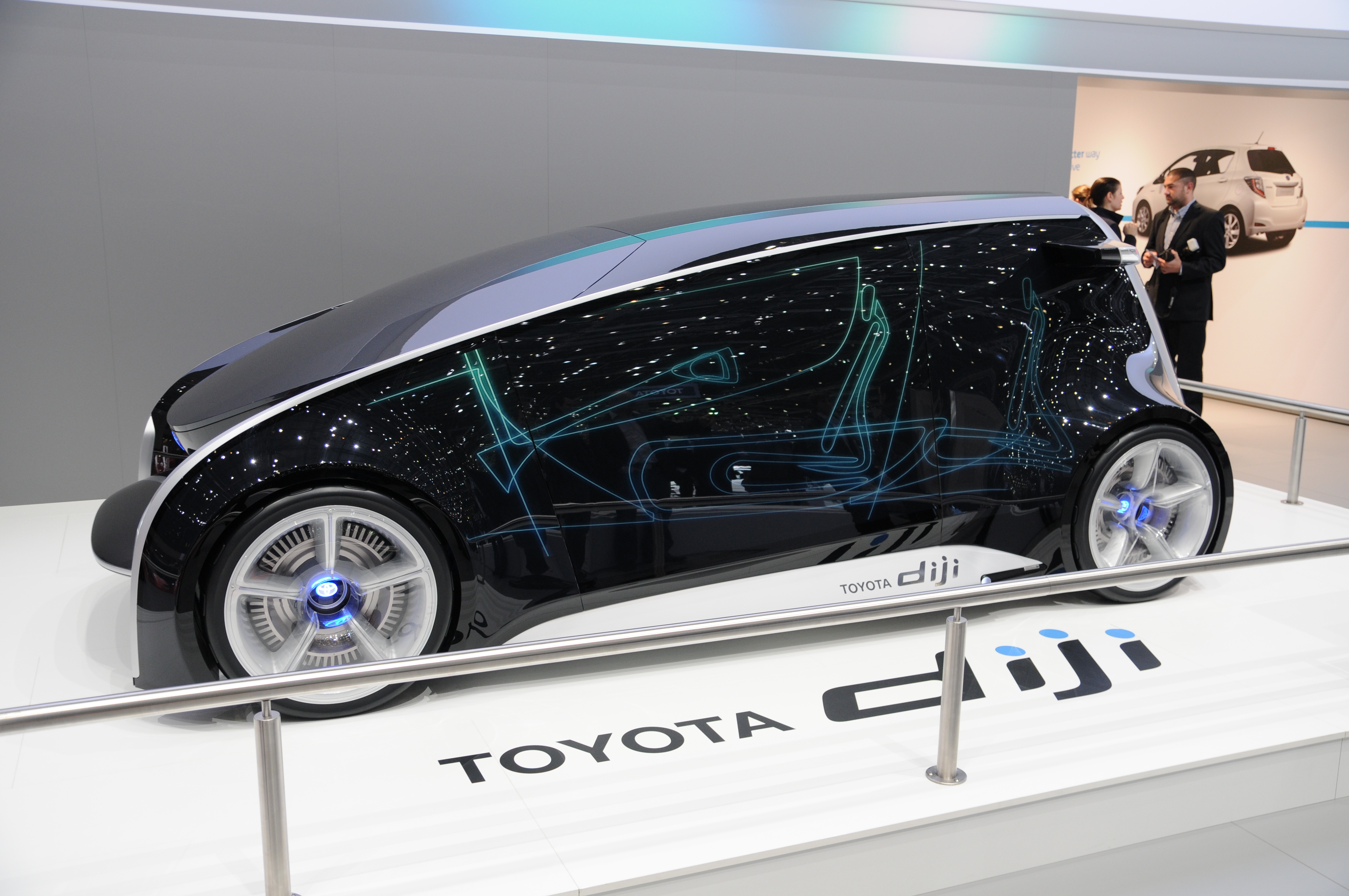 Geneva Motor Show 2012 (photos taken on the second press day)